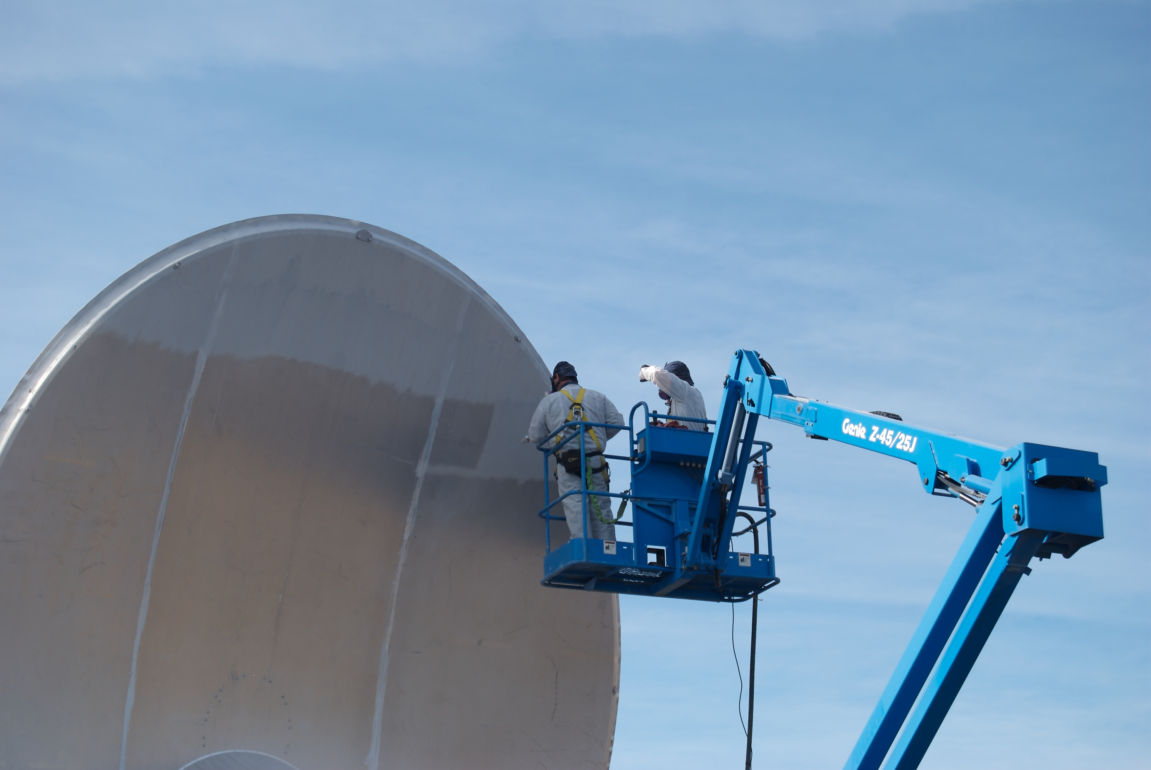 Soda blasting primary surfaces to make them less optically reflective.